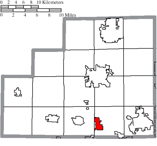 Map of the municipal and township boundaries of Medina County, Ohio, United States, as of the 2000 census, with the location of the village of Seville highlighted. Township borders are shown only in unincorporated areas in order to differentiate incorporated and unincorporated areas more clearly.